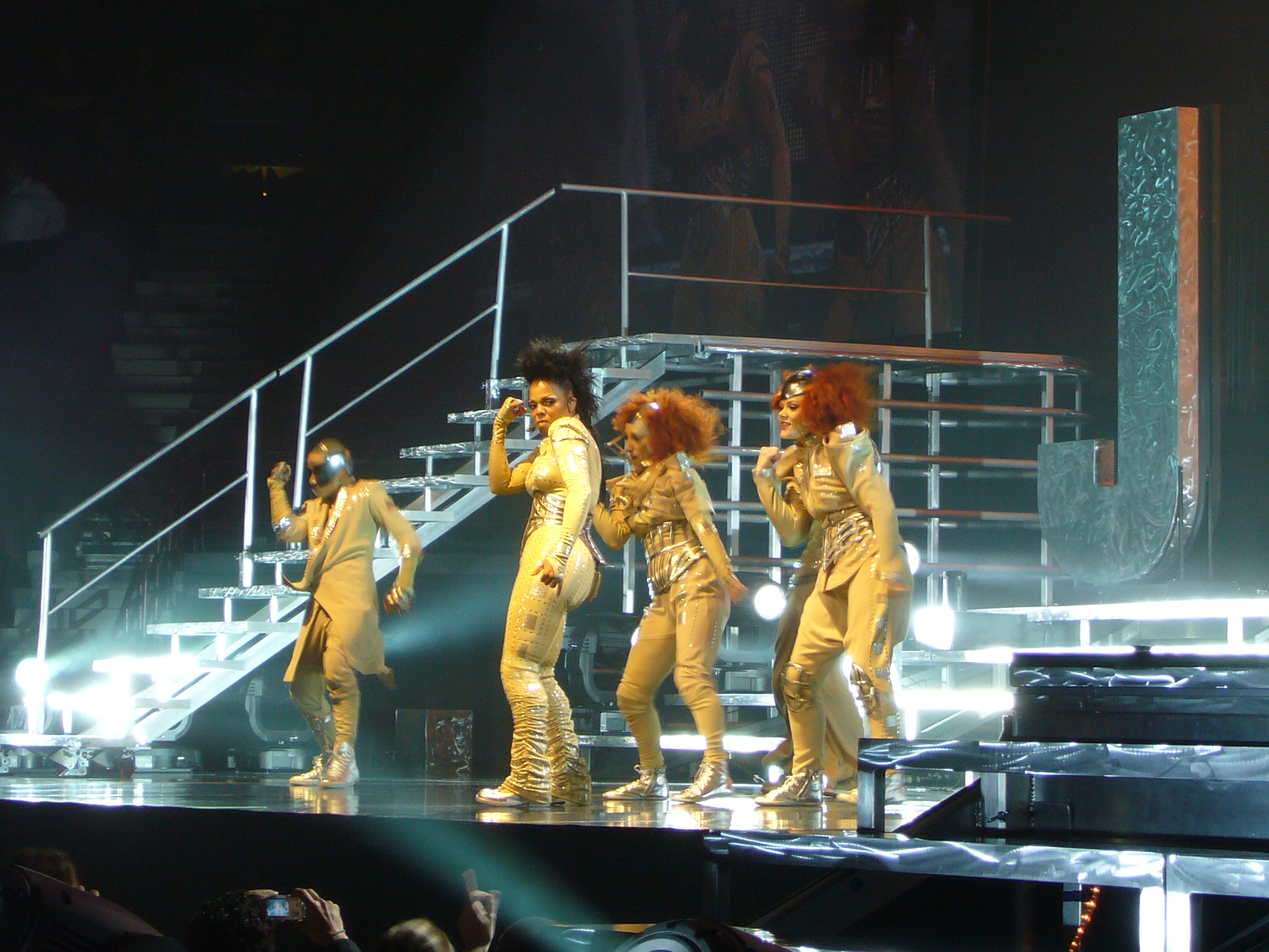 Janet Jackson, Vancouver